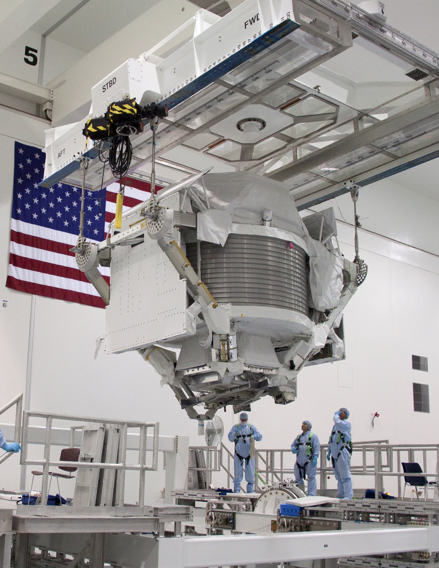 CAPE CANAVERAL, Fla. – In the Space Station Processing Facility at NASA's Kennedy Space Center in Florida, an overhead hoist lowers the Alpha Magnetic Spectrometer (AMS) onto a rotation stand where it will be tested and processed for launch. AMS, a state-of-the-art particle physics detector, is designed to operate as an external experiment on the International Space Station. It will use the unique environment of space to study the universe and its origin by searching for dark matter. AMS will fly to the station aboard space shuttle Endeavour's STS-134 mission targeted to launch February, 2011. For more information visit